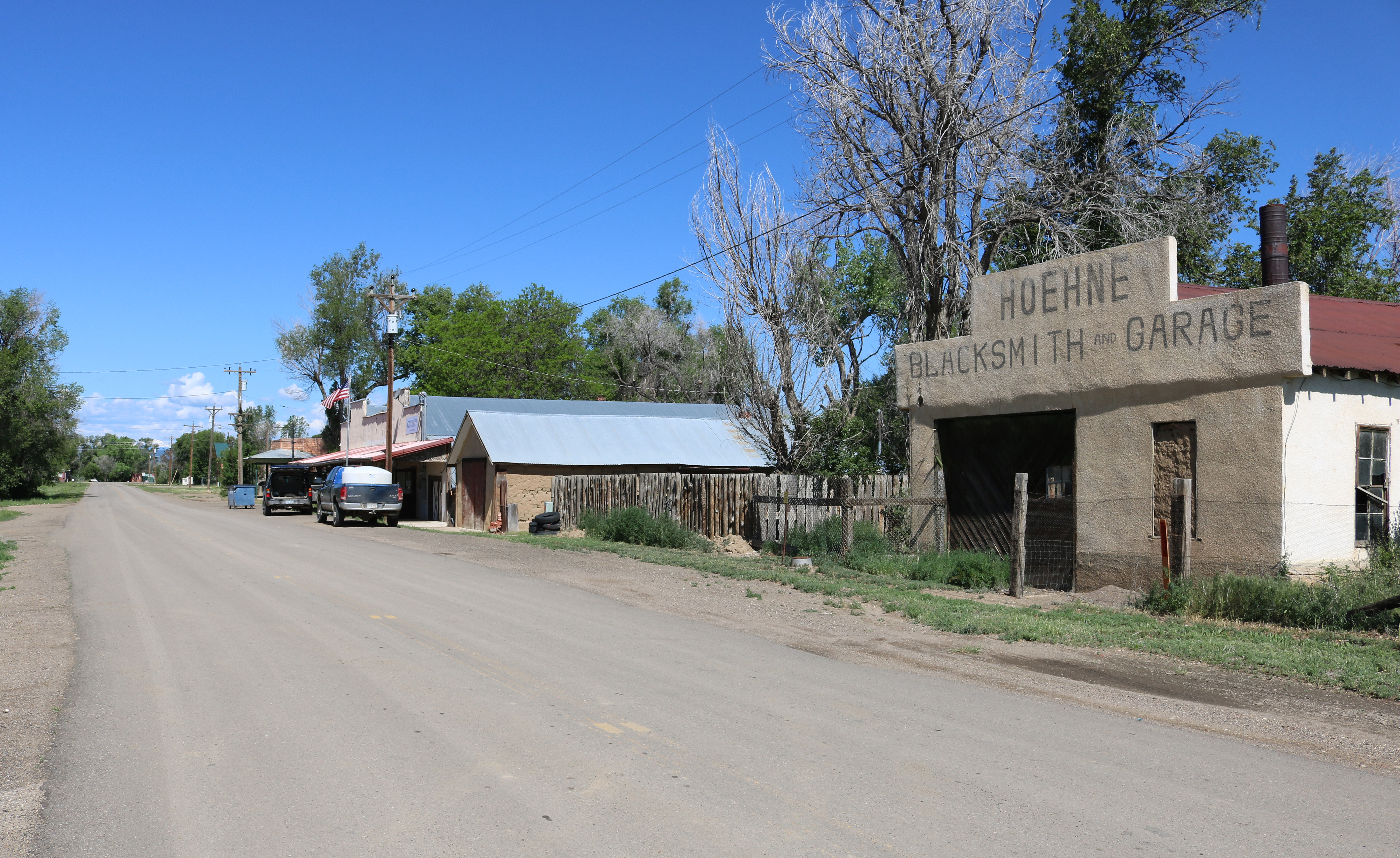 The community of Hoehne, Colorado, in Las Animas County. The picture shows the Hoehne Blacksmith and Garage, and beyond it the Hoehne Post Office and store are visible. The road in the picture is Las Animas County Road 40.6.